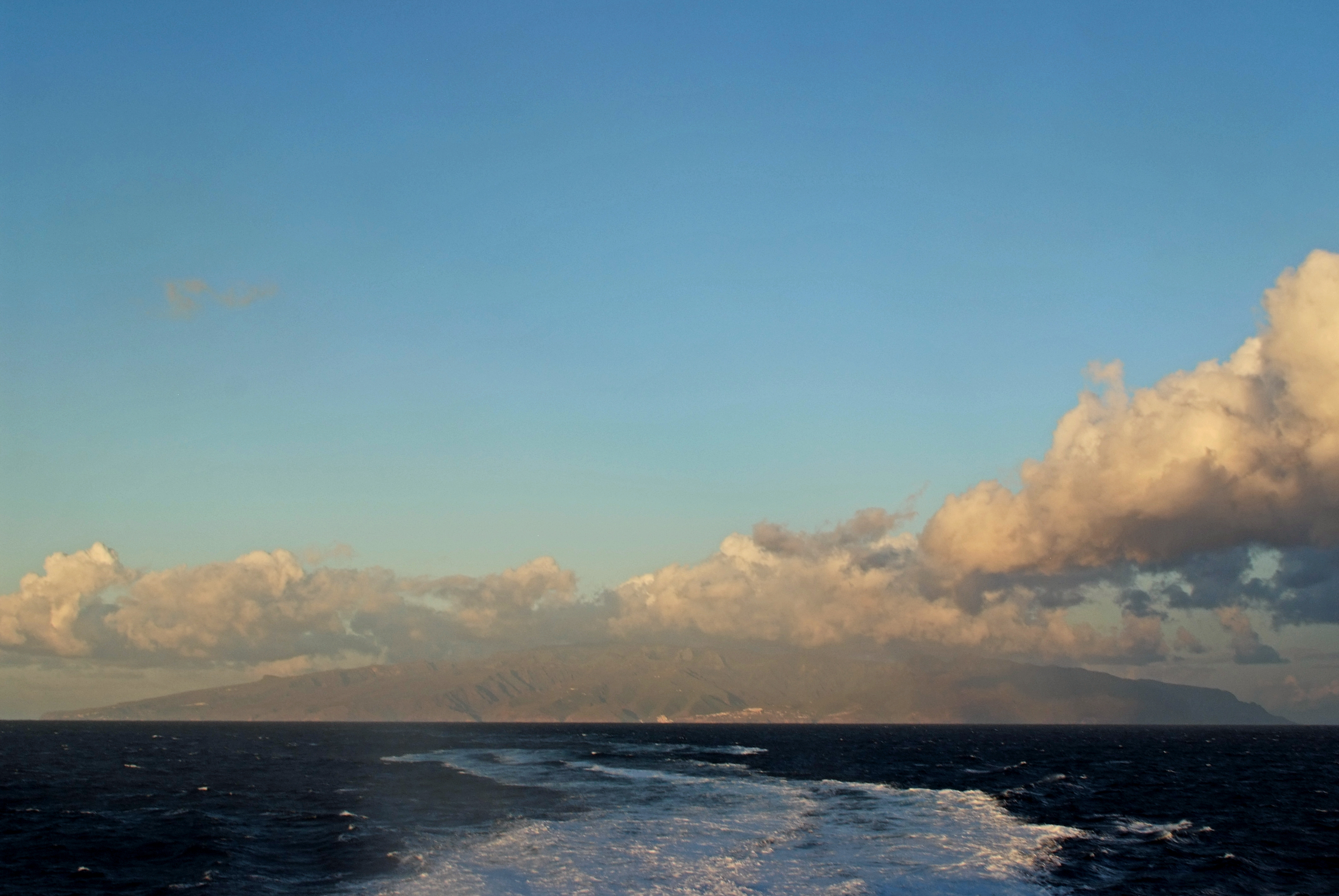 La Gomera - View from the ferry to Teneriffa